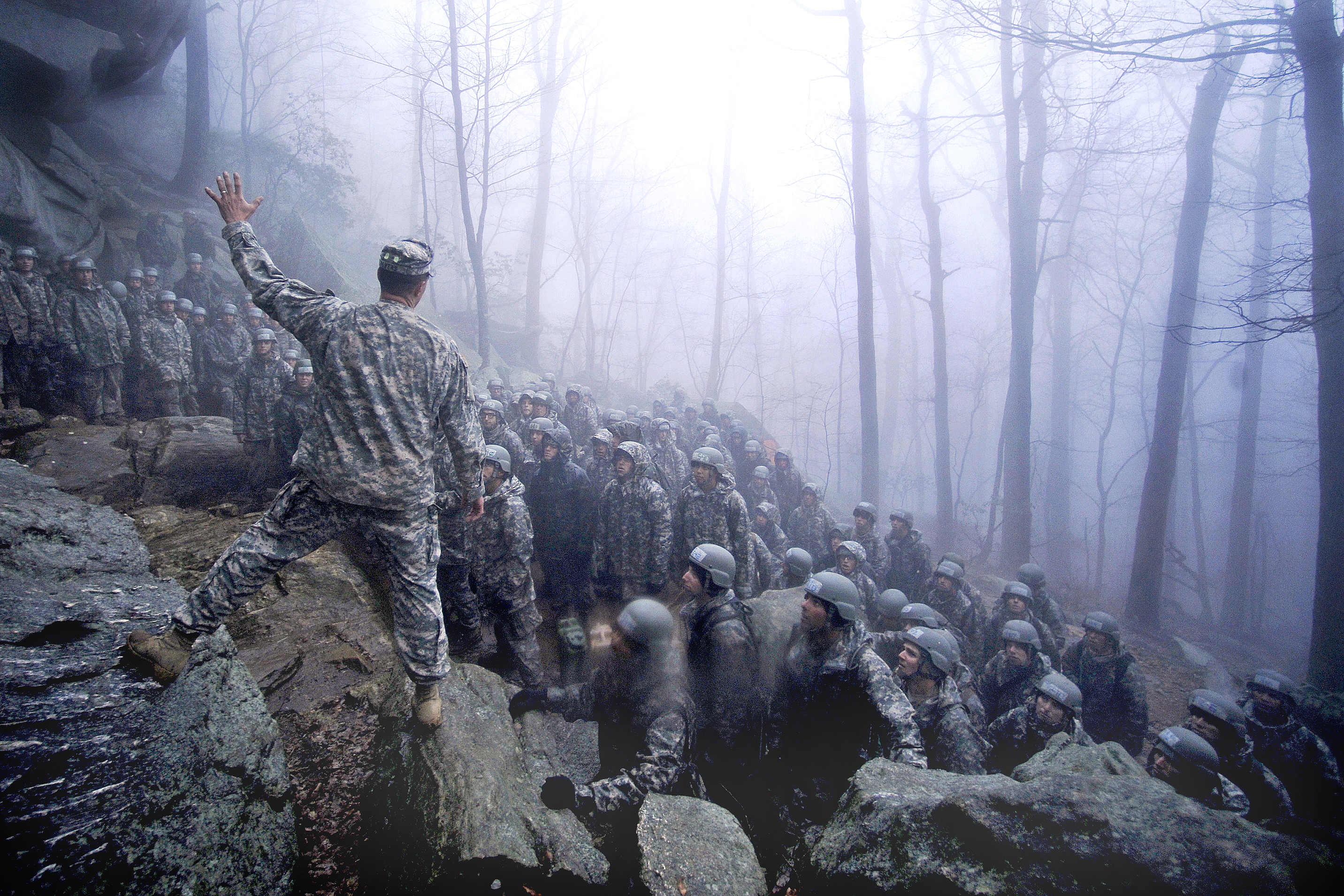 TECHNICAL TRAINING - A U.S. Army Ranger instructor explains the technical instructions of rappelling from the 50-foot rock to his left in Dahlonega, Ga., April 13, 2009. It is one of three phases of training.